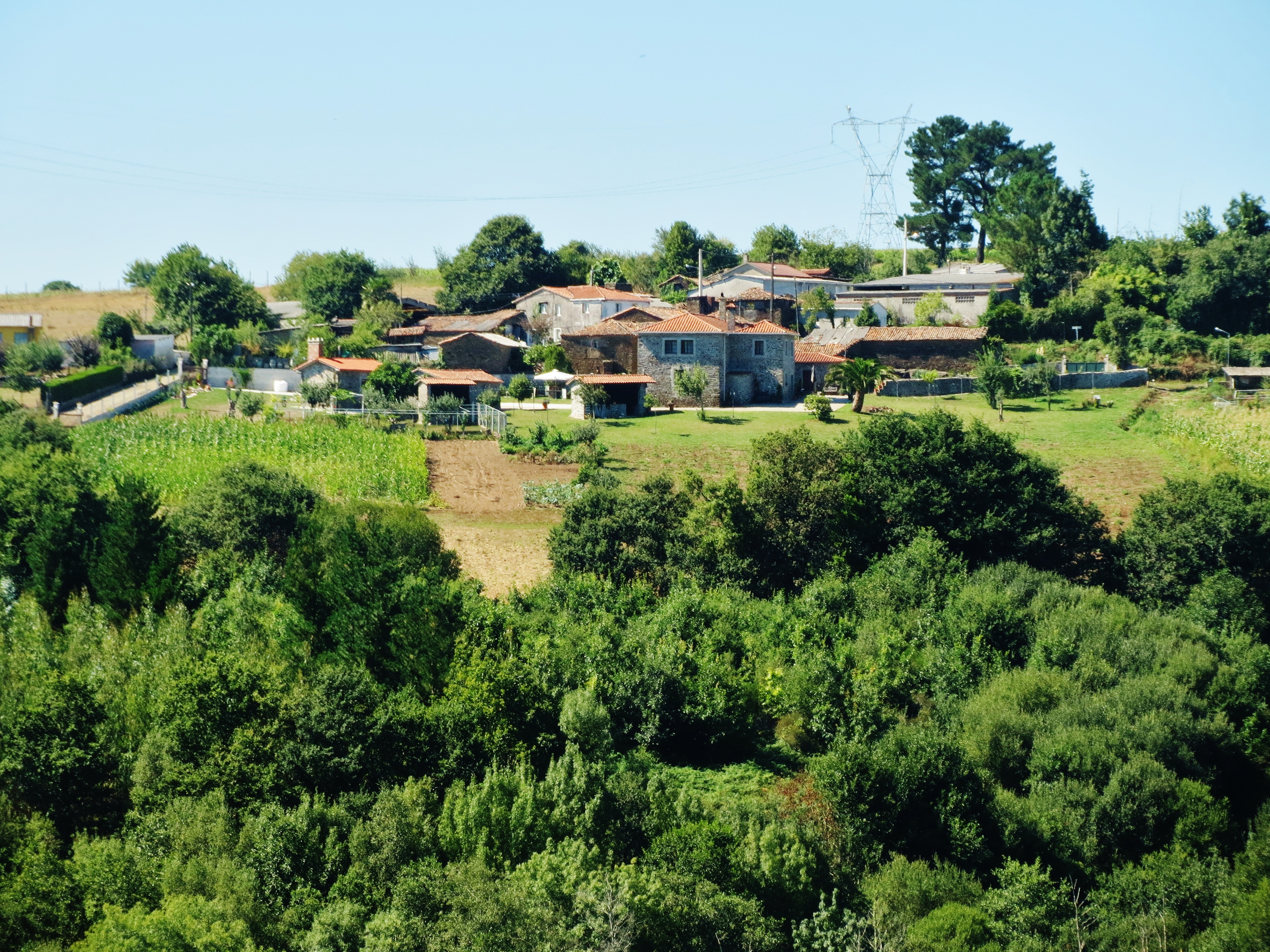 Fonsá village, in Aiazo (Frades, Galicia) with the Pazo of Mariñas in the centre of the picture